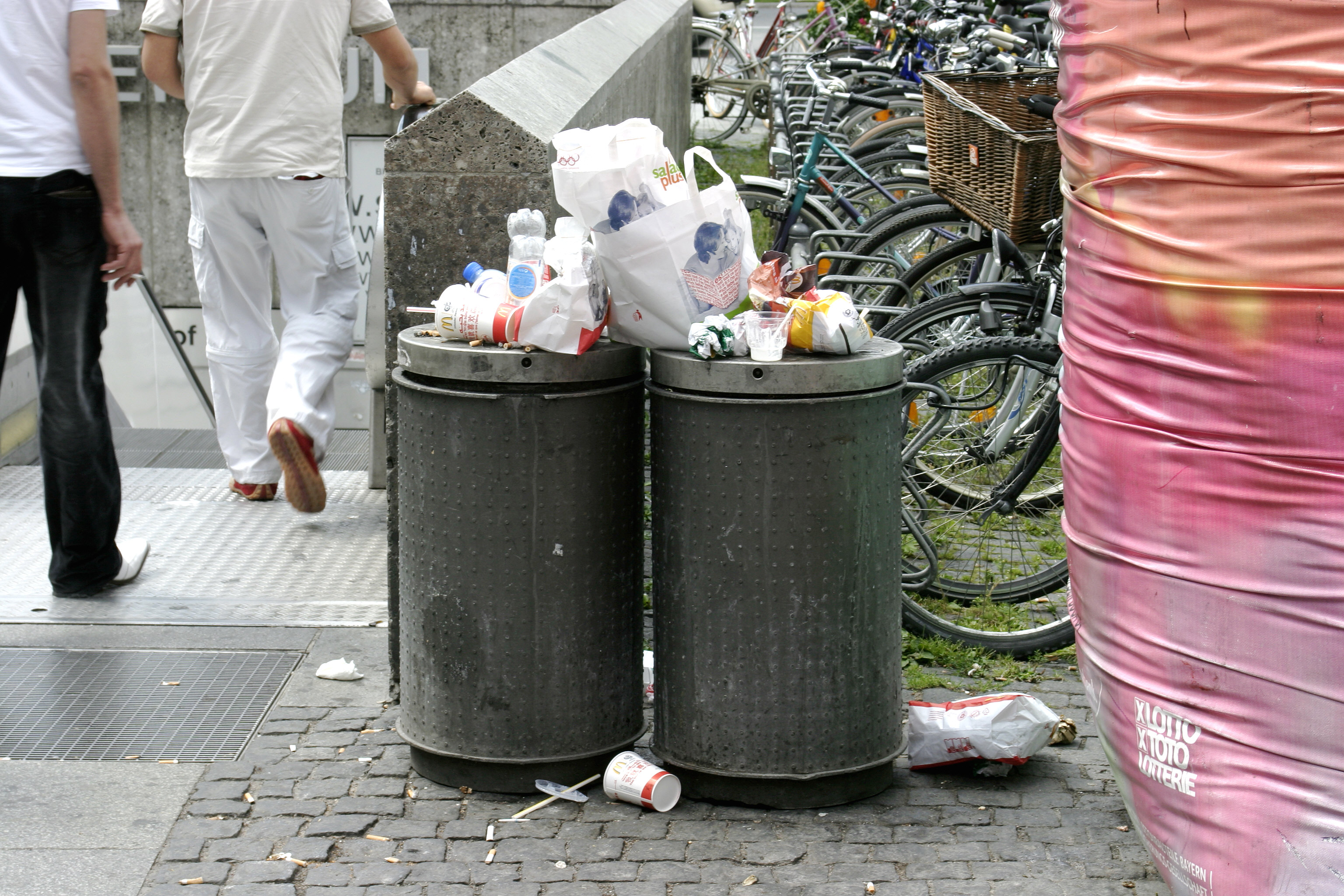 Garbage